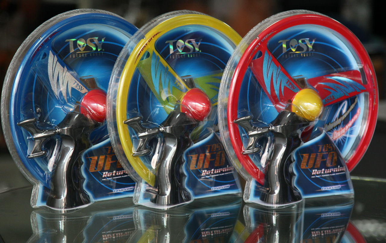 • Flying a far distance and returning exactly to the player • Smart super bright LEDs automatically turn on when flying, creating a bright colourful rainbow at night • Hanging on the ceiling or wall like a gyro • Easy play with launcher • Changing the flexure of the three blades for desired height • Safe even in small space ( indoor and outdoor)